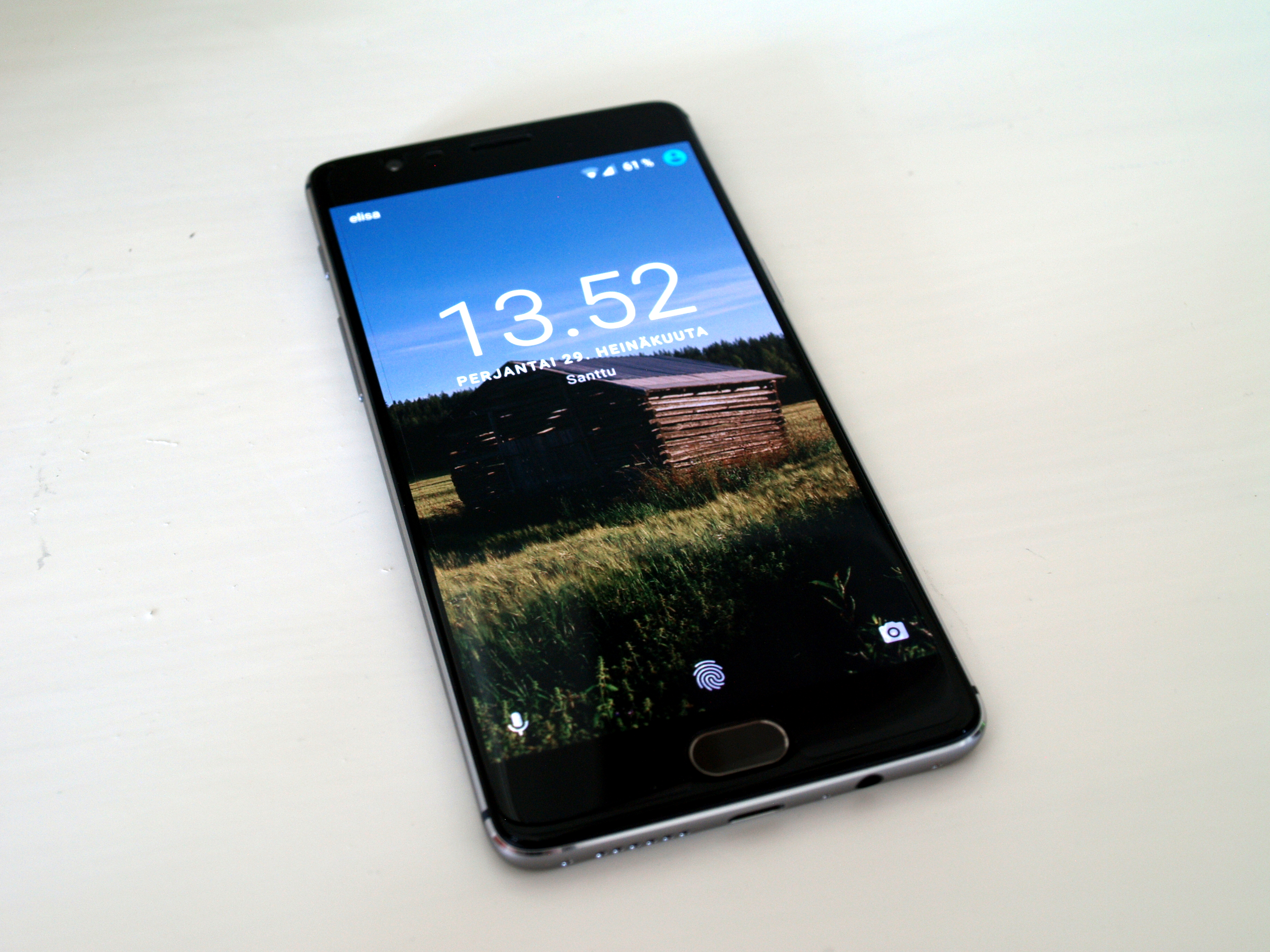 OnePlus 3 A3003 smart phone.